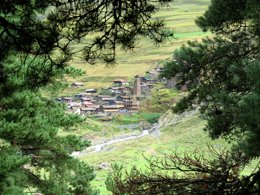 Dartlo (დართლო) and the river Didkhevi (დიდხევი), Tusheti Georgia